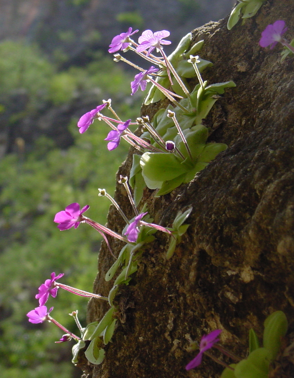 Pinguicula elizabethiae in situ at Toliman Canyon, Hidalgo state, Mexico